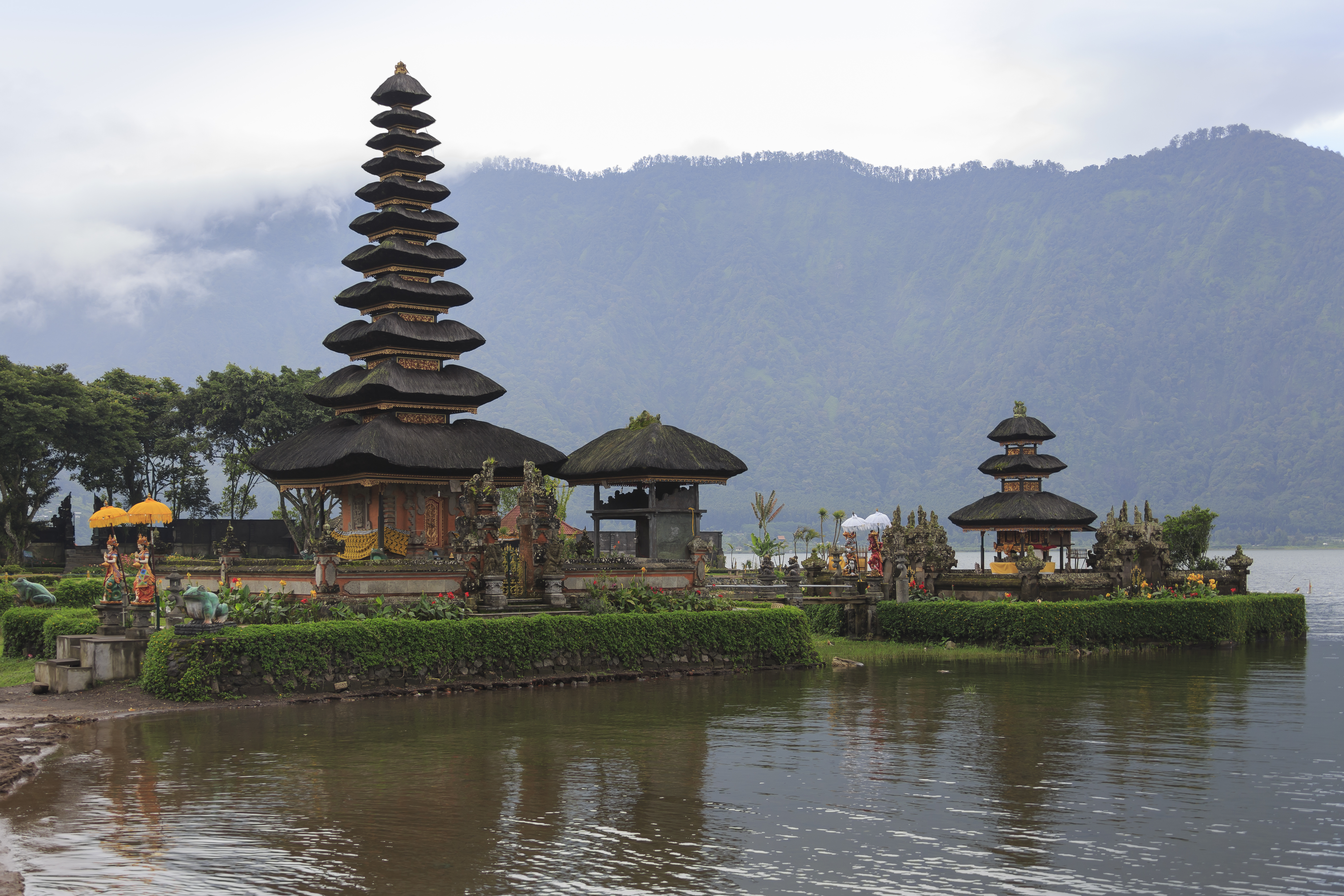 Bratan, Bali, Indonesia: Pura Ulun Danu Bratan, a balinese hindu temple. This temple view is also adorning the 50.000 Rupiah bill.